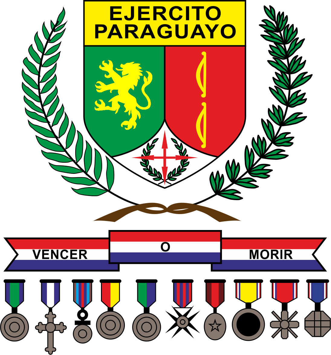 Coat of arms of the Paraguayan Army.